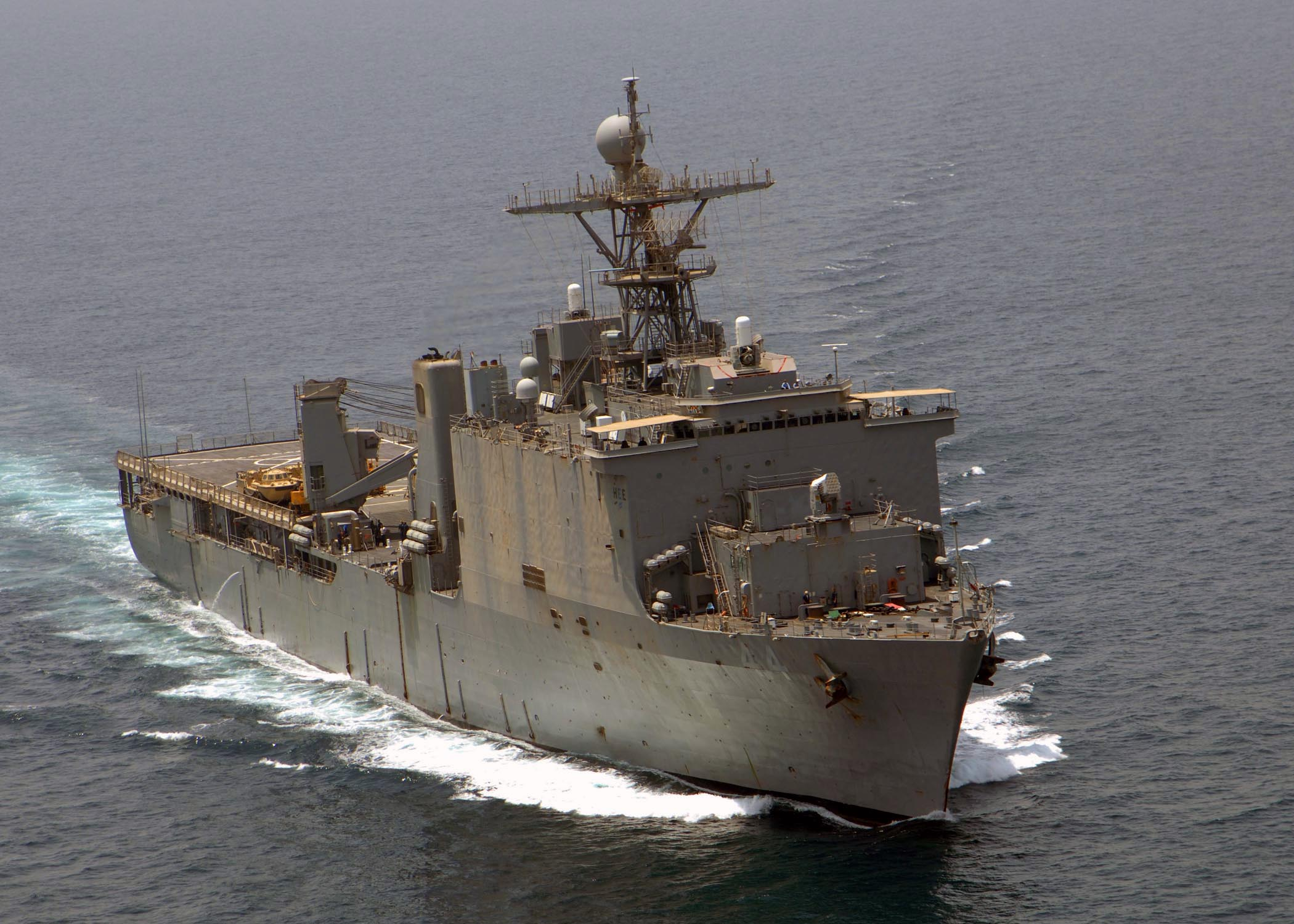 Persian Gulf (July 19, 2005) - The amphibious dock landing ship USS Gunston Hall (LSD 44) conducts Surface Action Group operations during exercise Nautical Union. Nautical Union is a joint exercise between U.S. and coalition forces in the Persian Gulf. Nautical Union operations include conducting Maritime Security Operations (MSO) training, air defense, anti submarine warfare, surface warfare, mine counter measures, electronic warfare, replenishment at sea (RAS) and command and control. Maritime Security Operations (MSO) set the conditions for security and stability in the maritime environment as well as complements the counter-terrorism and security efforts of regional nations. U.S. Navy photo by Photographer's Mate 1st class Robert R. McRill (RELEASED)